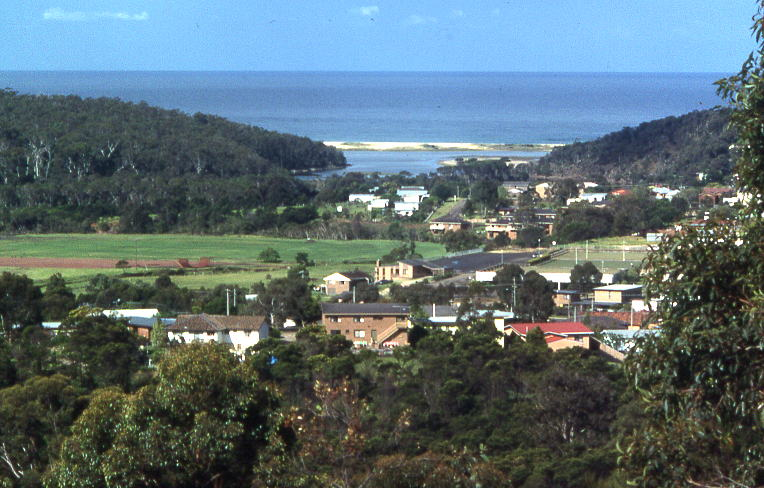 merimbula, australia